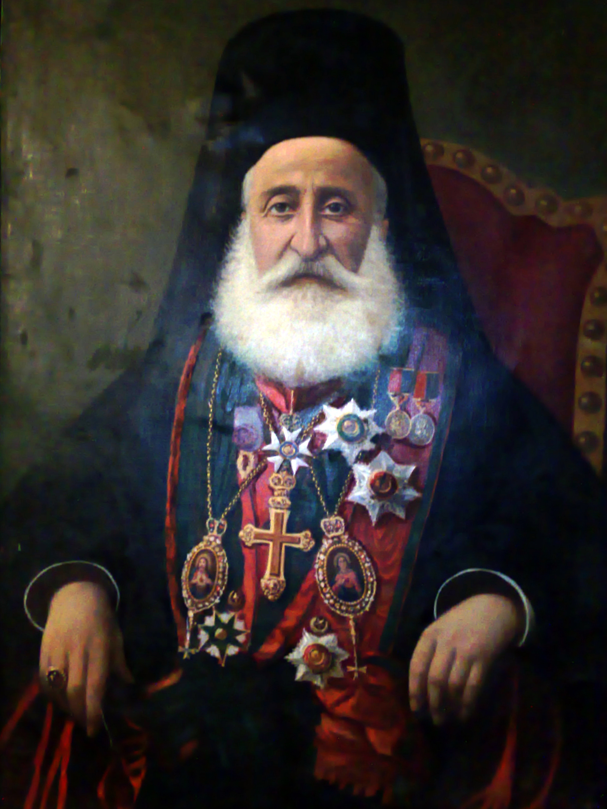 its a family picture, a family member.